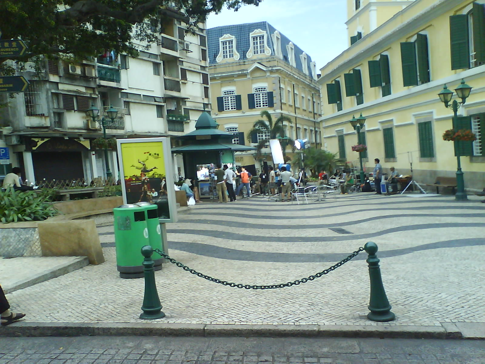 A film crew along Largo de Santo Agostinho, Macau.